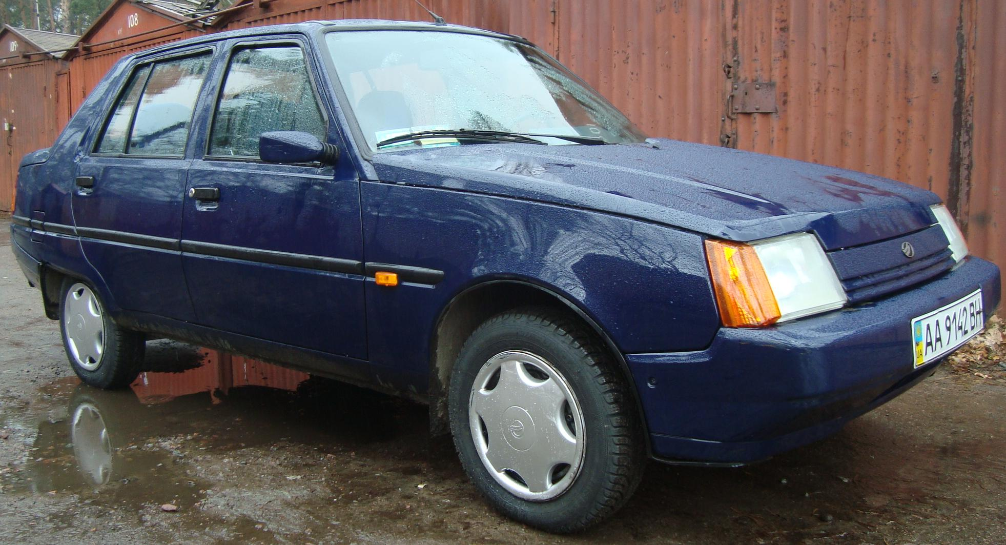 ZAZ-110307 Slavuta